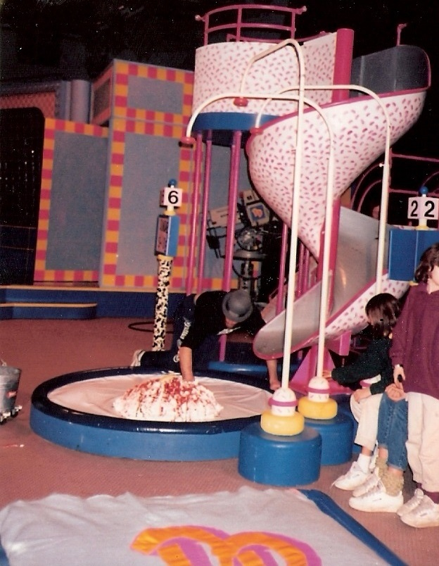 Double Dare Sundae Slide - Taken January 11, 1987